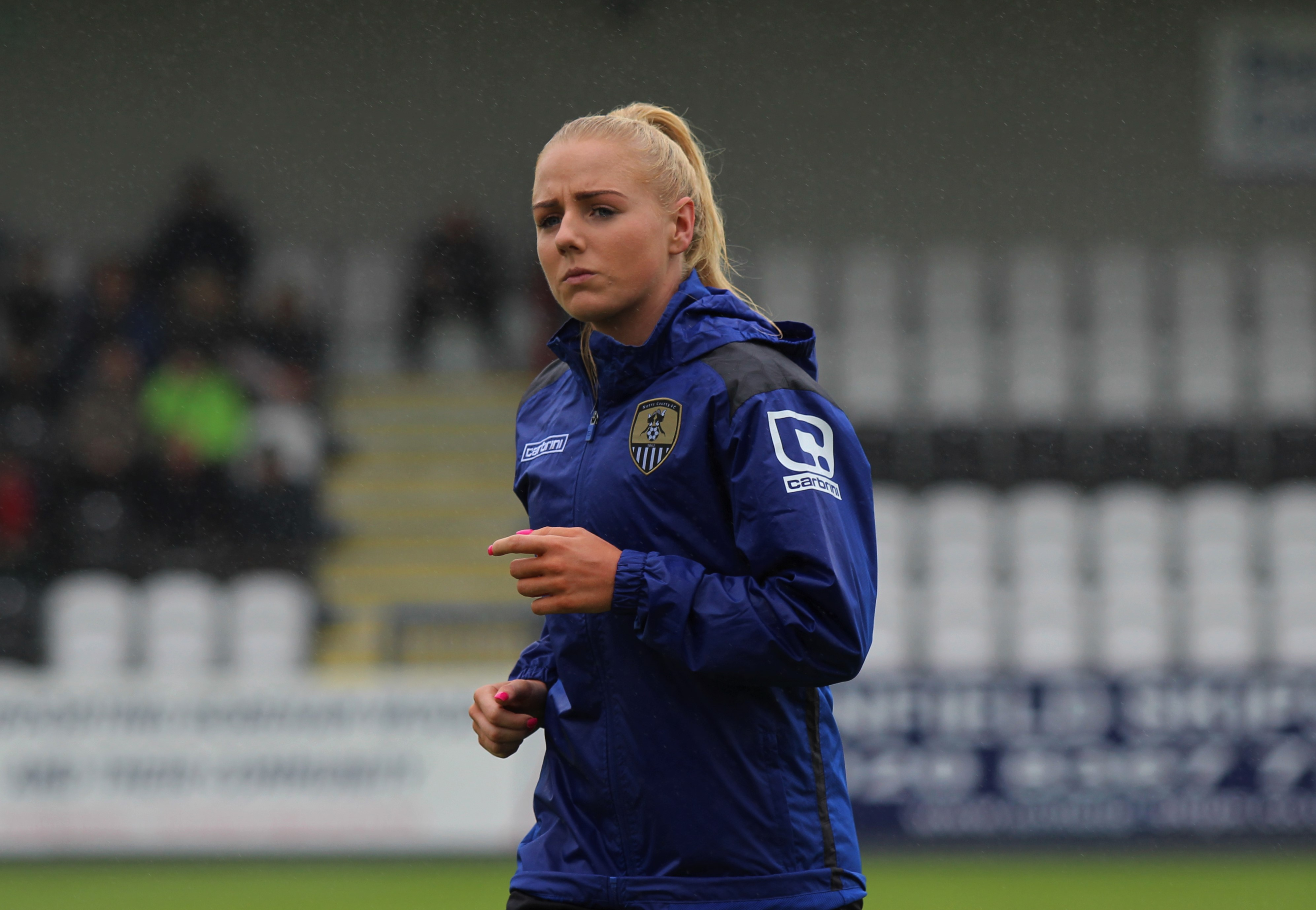 Alex Greenwood of Notts County Ladies during the warm up before the game against Arsenal.